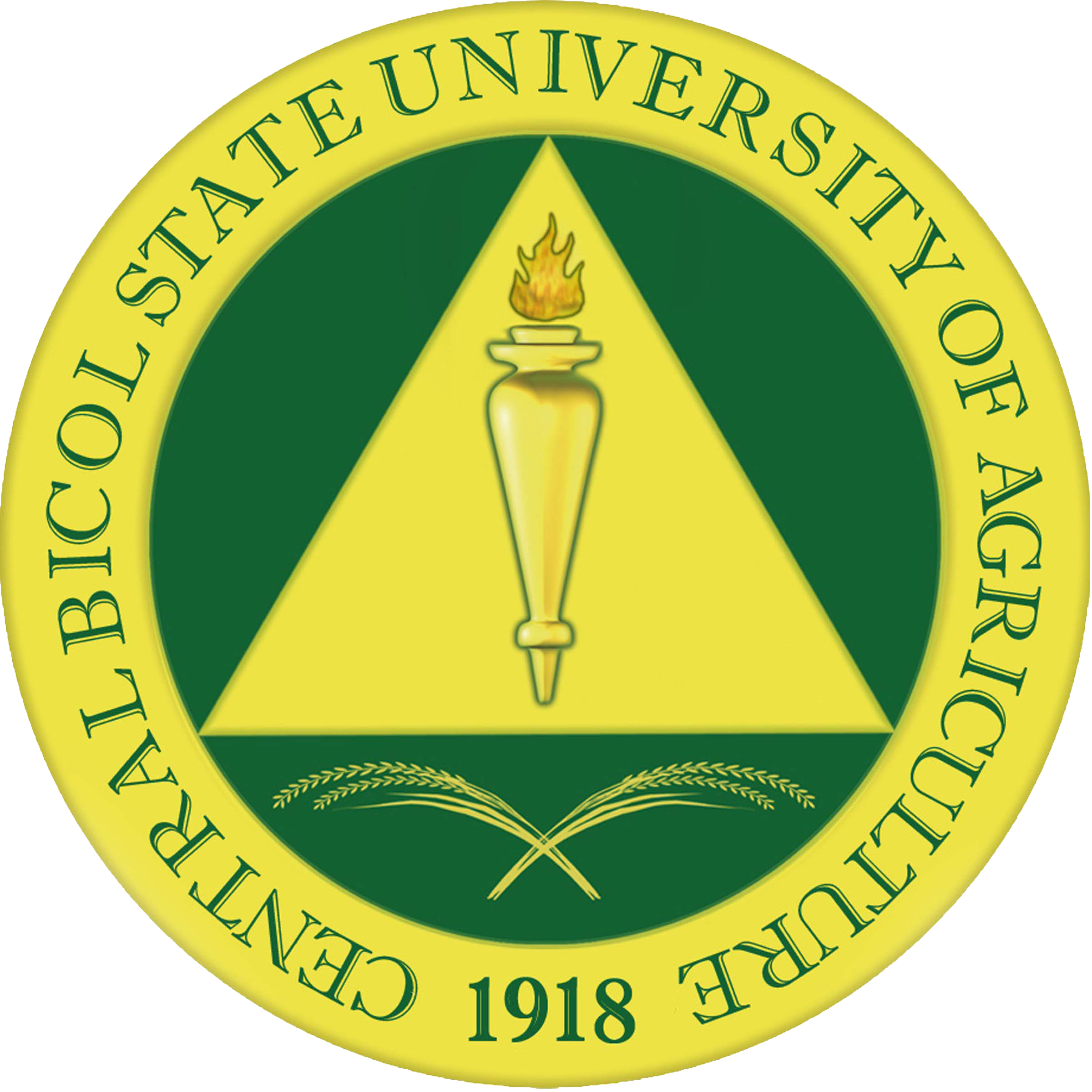 CBSUA Logo_Credit to PIO Office